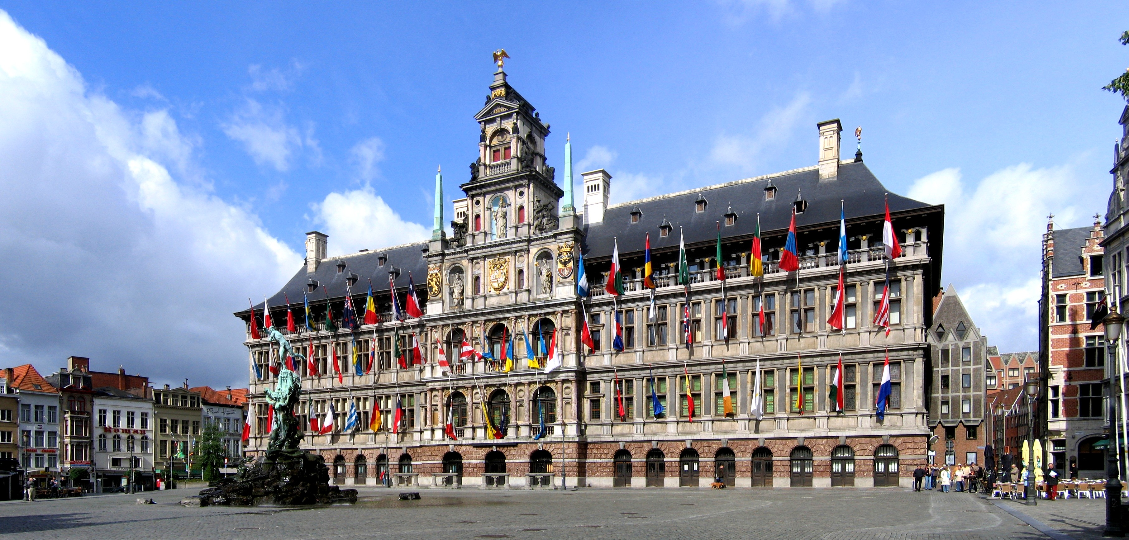 The Stadhuis van Antwerpen (City Hall of Antwerp) stands on the western side of Antwerp's Grote Markt (Great Market Square). As one of the Belfries of Belgium and France it is listed since 1999 as a World Heritage site.